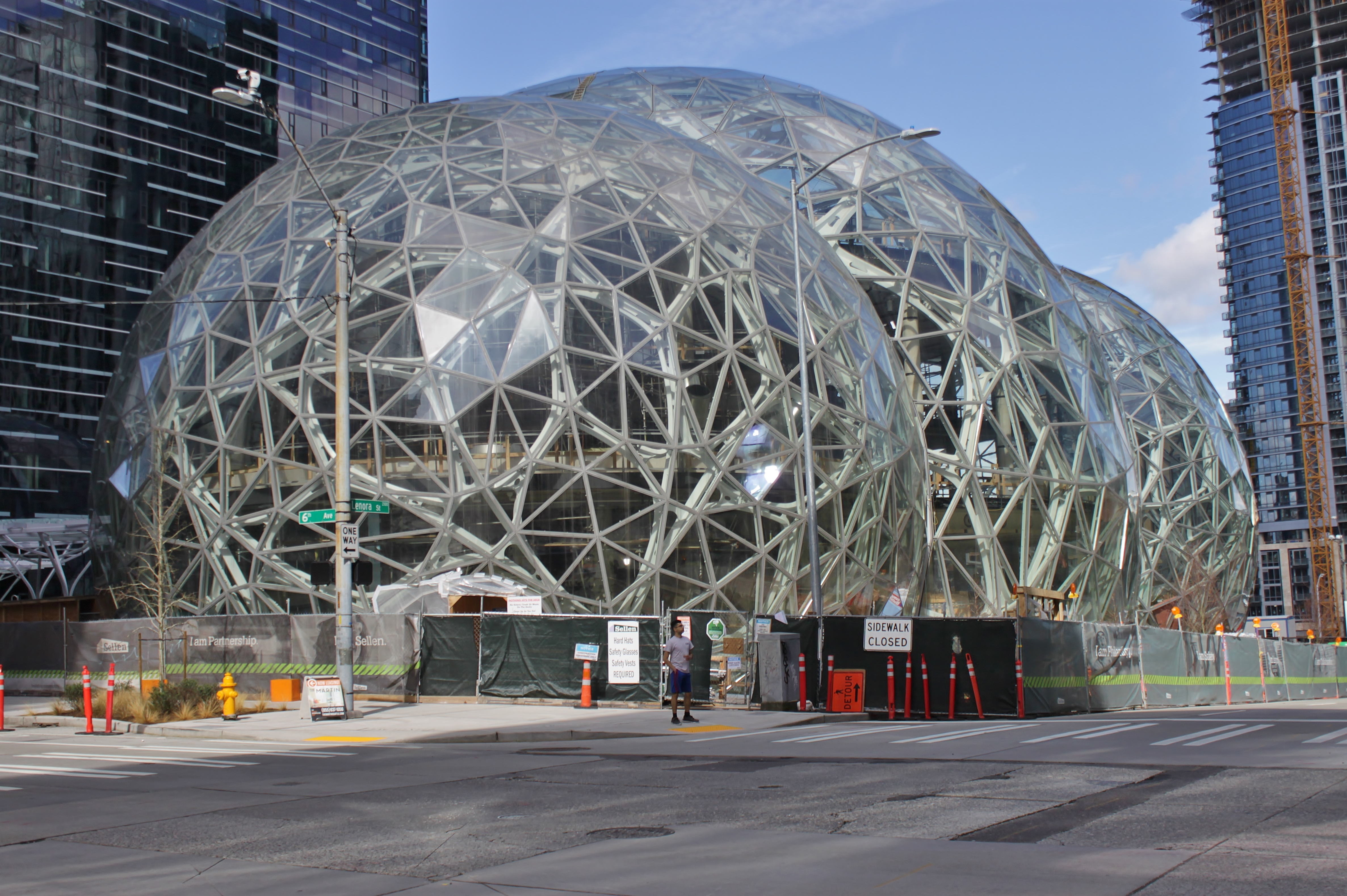 The Amazon Spheres, a tourist attraction on the Amazon headquarters campus in Seattle, seen under construction in March 2017.